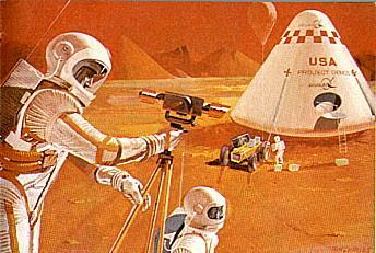 Project Deimos: Mars base surface